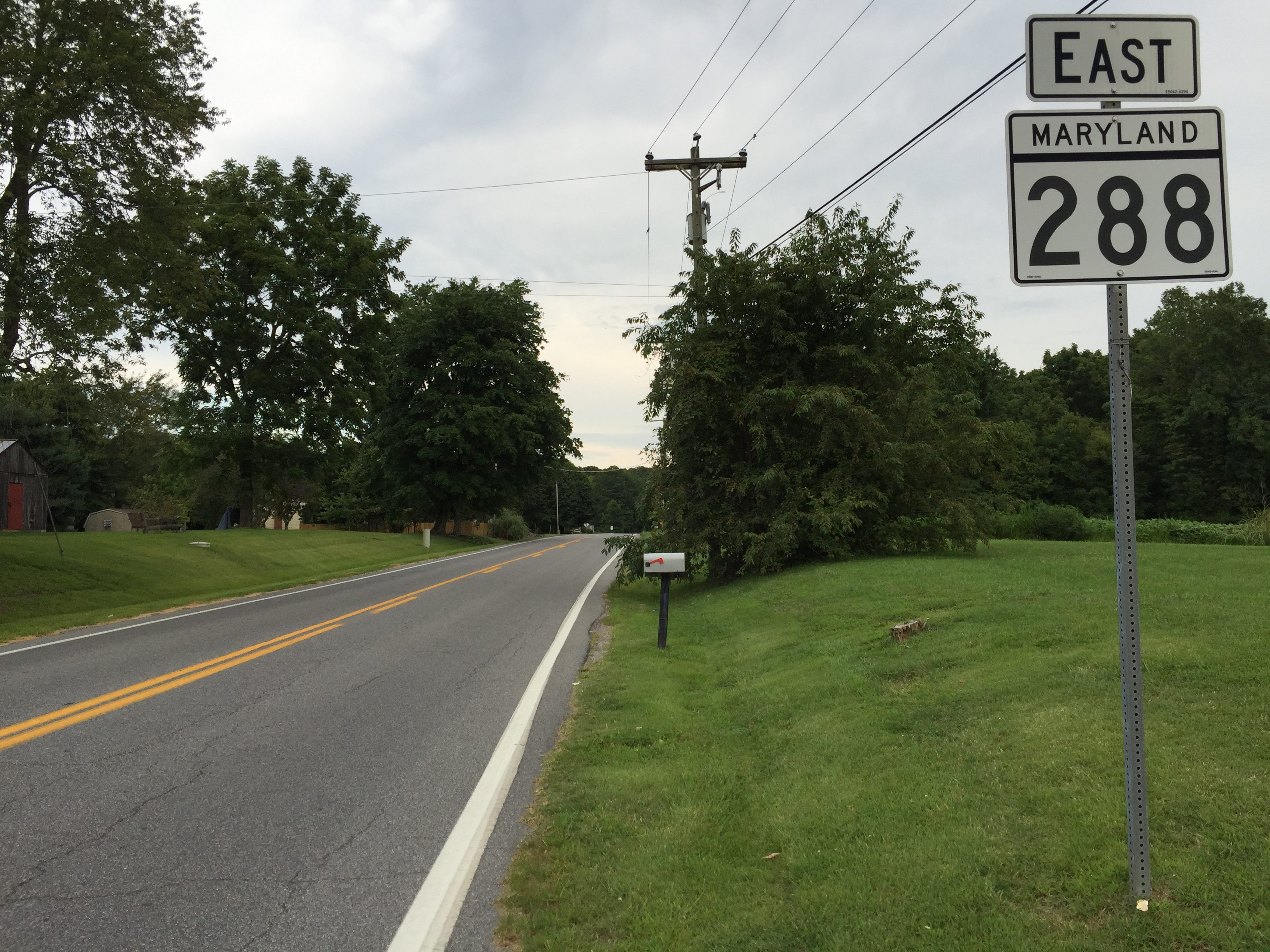 View east along Maryland State Route 288 (Crosby Road) at Maryland State Route 20 (Rock Hall Road) in Sharpstown, Kent County, Maryland